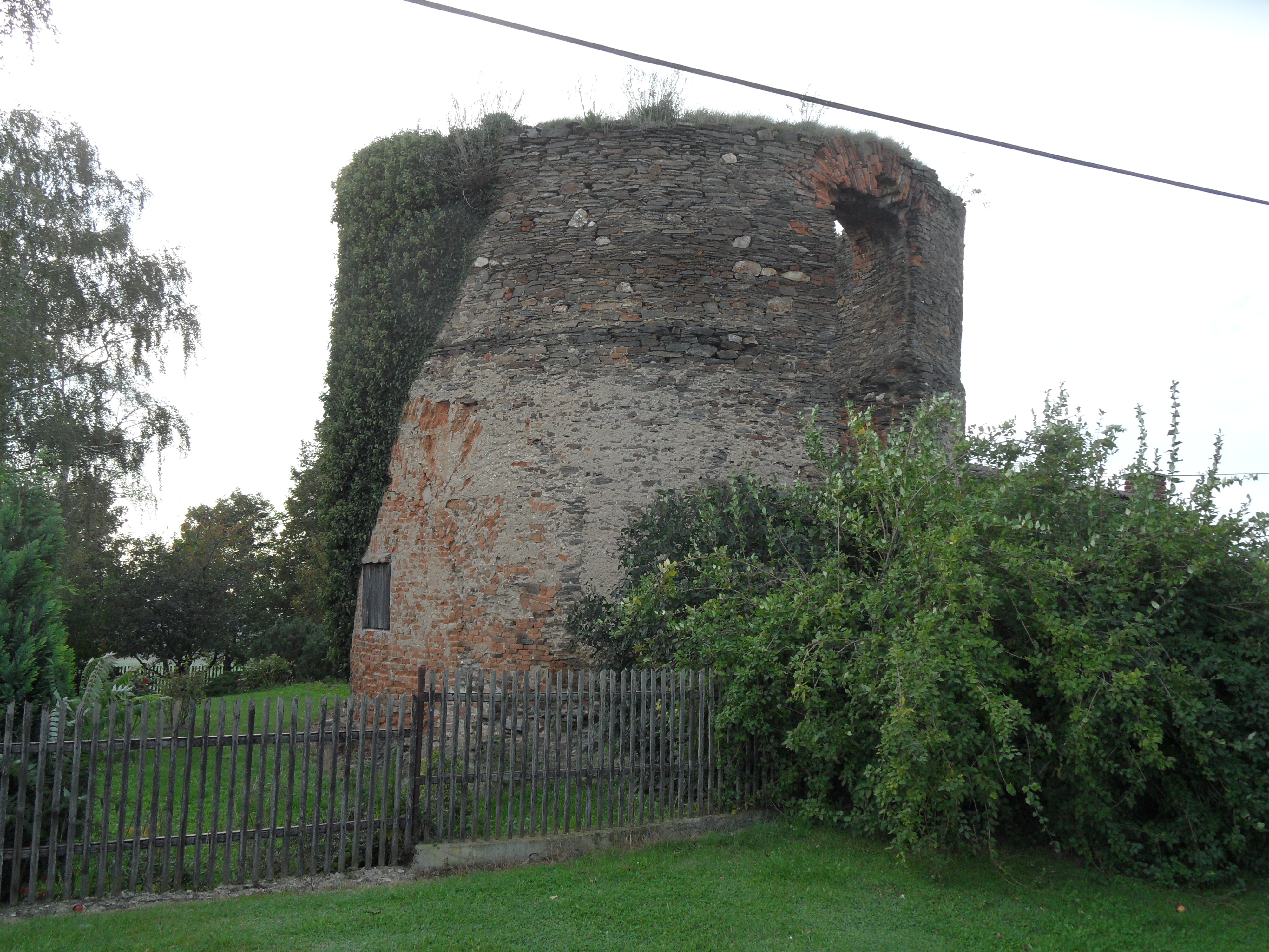 Štrampouch (Žáky) B. The Rest of Windmill, Kutná Hora District, the Czech Republic.